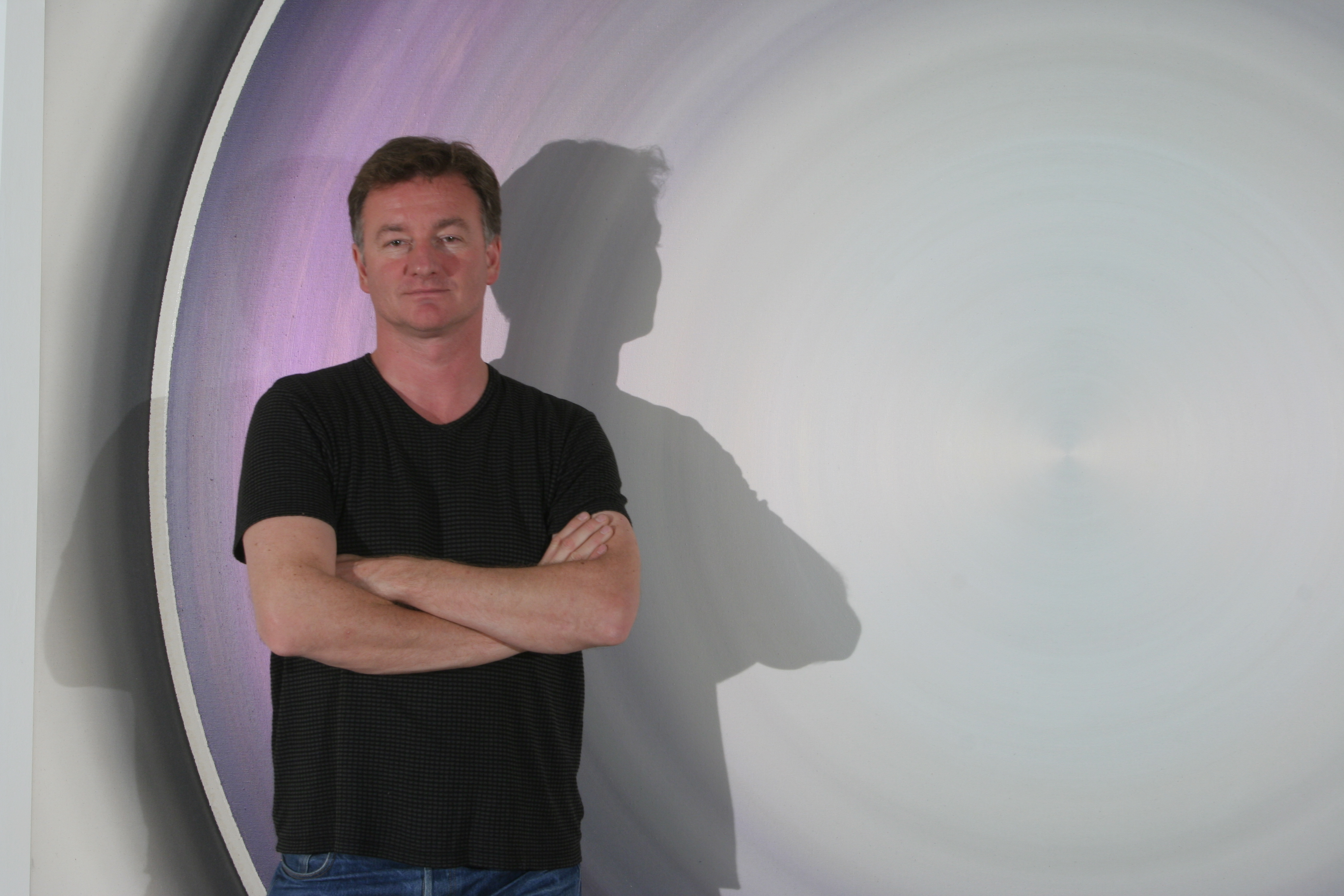 The painter Robert Schaberl at his Studio in Vienna 2007.